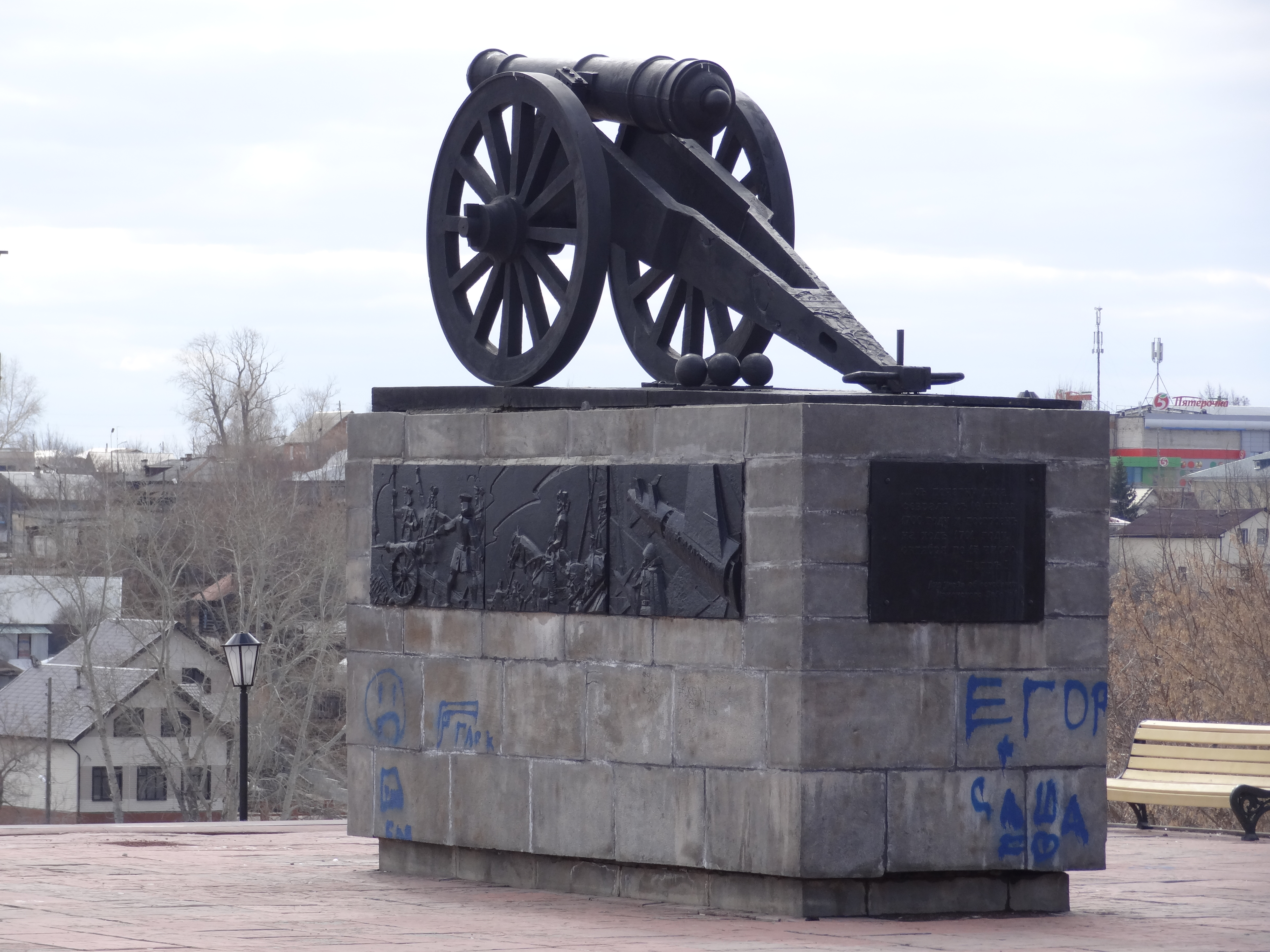 Мonument "Cannon" in Kamensk-Uralsky, Sverdlovsk oblast, Russia